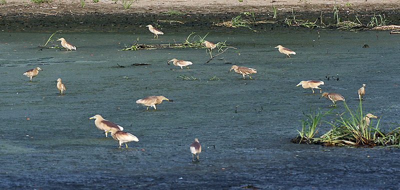 Indian Pond Heron Ardeola grayii in Kolkata, West Bengal, India.